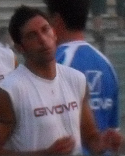 Luca Fusco before Salernitana-Benevento match